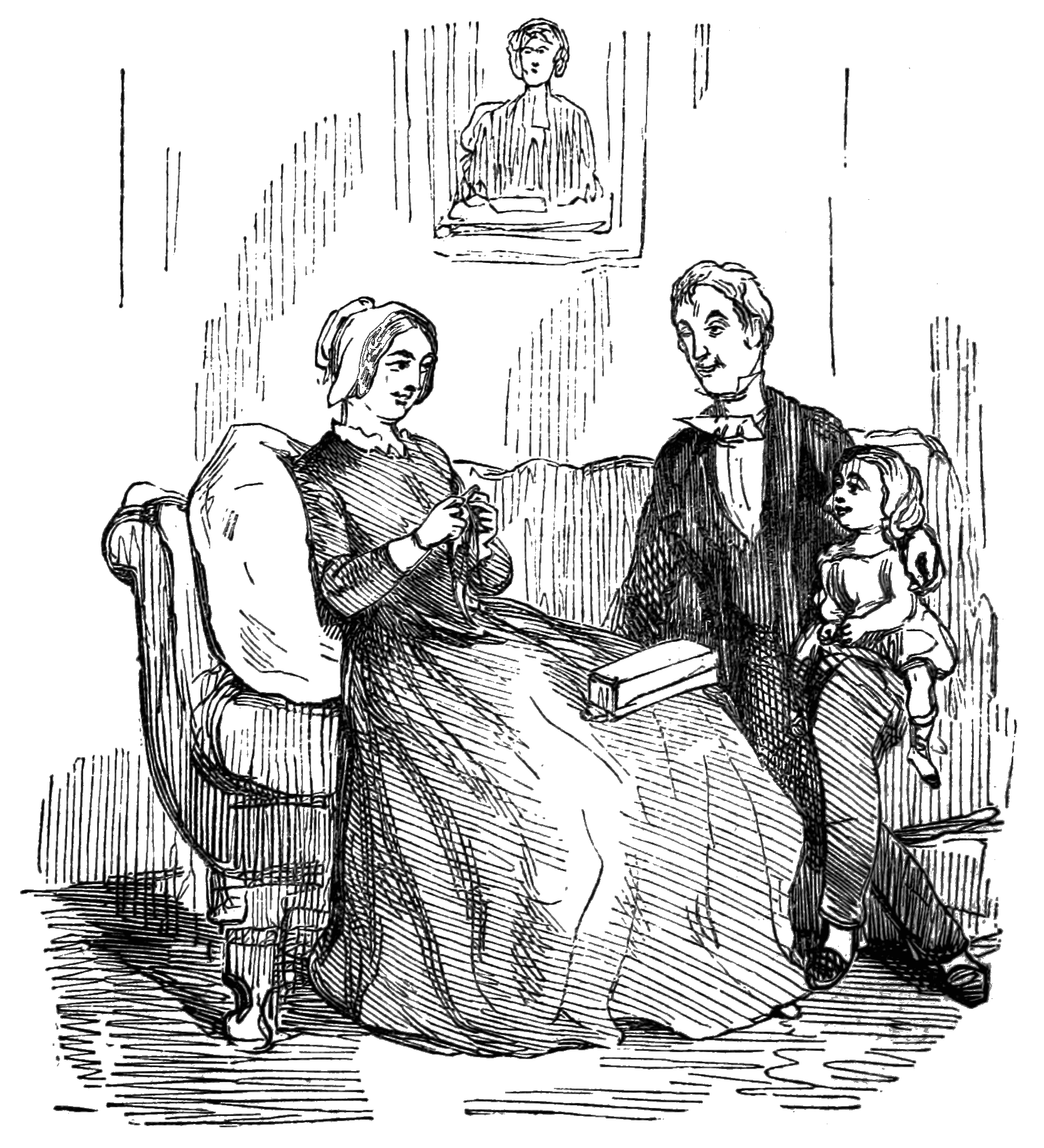 Untitled image from the novel. The number indicates the Djvu page number of the Wikisource transclusion.